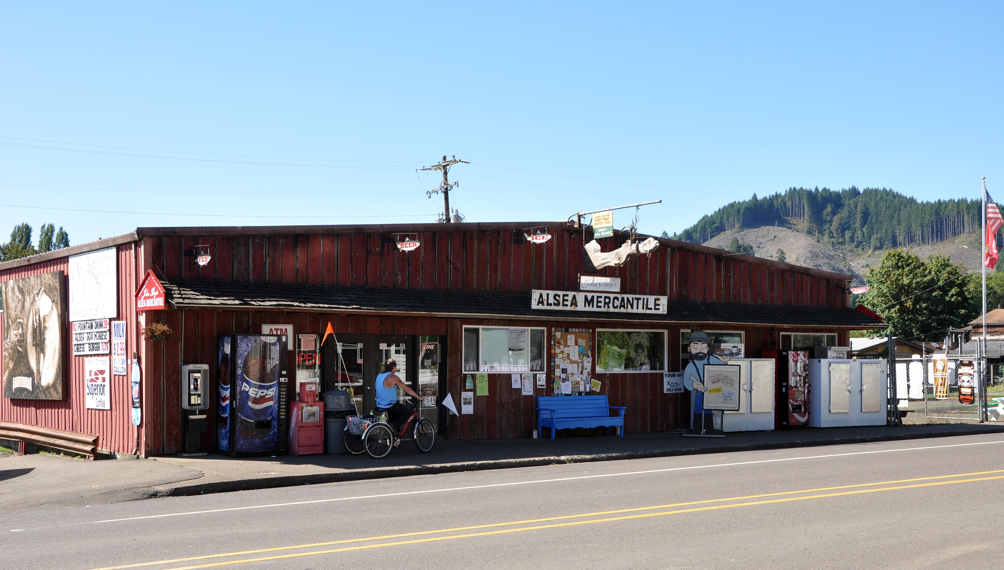 Alsea Mercantile in Alsea, Oregon, in the United States. Looking south from Route 34, the Alsea Highway.